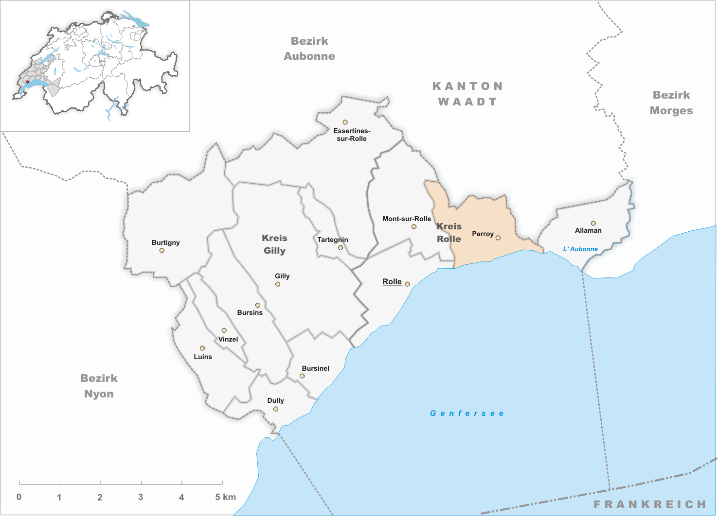 Municipality Perroy